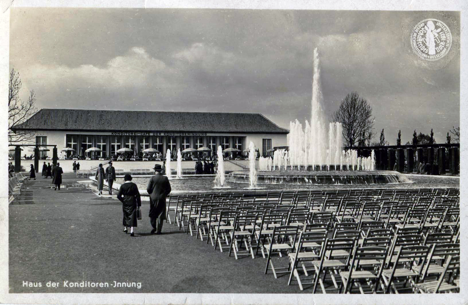 Reichsaustellung Schaffendes Volk - Postcard 1937. Haus der Konditoren